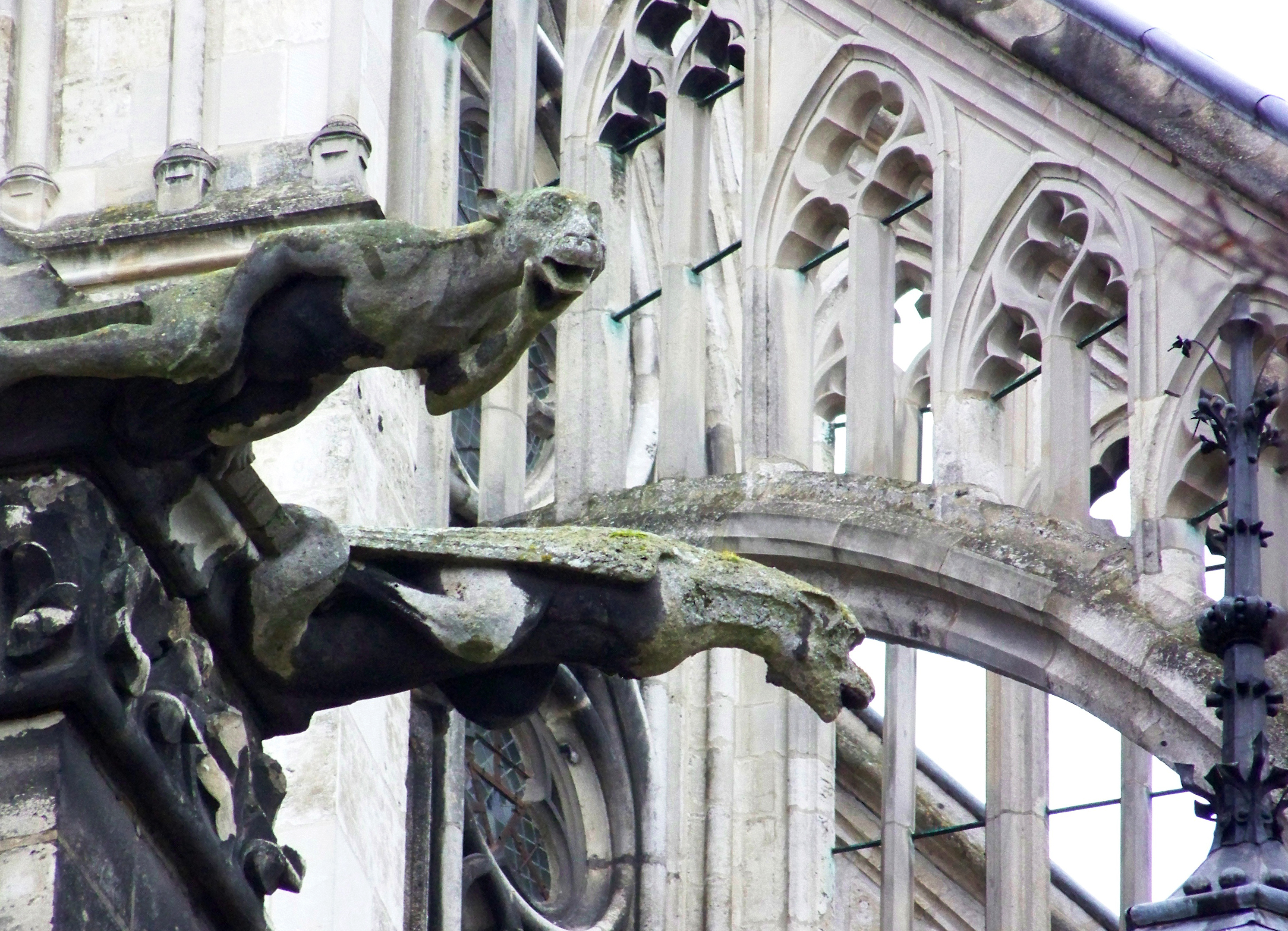 Gargoyles of Amiens cathedral, France